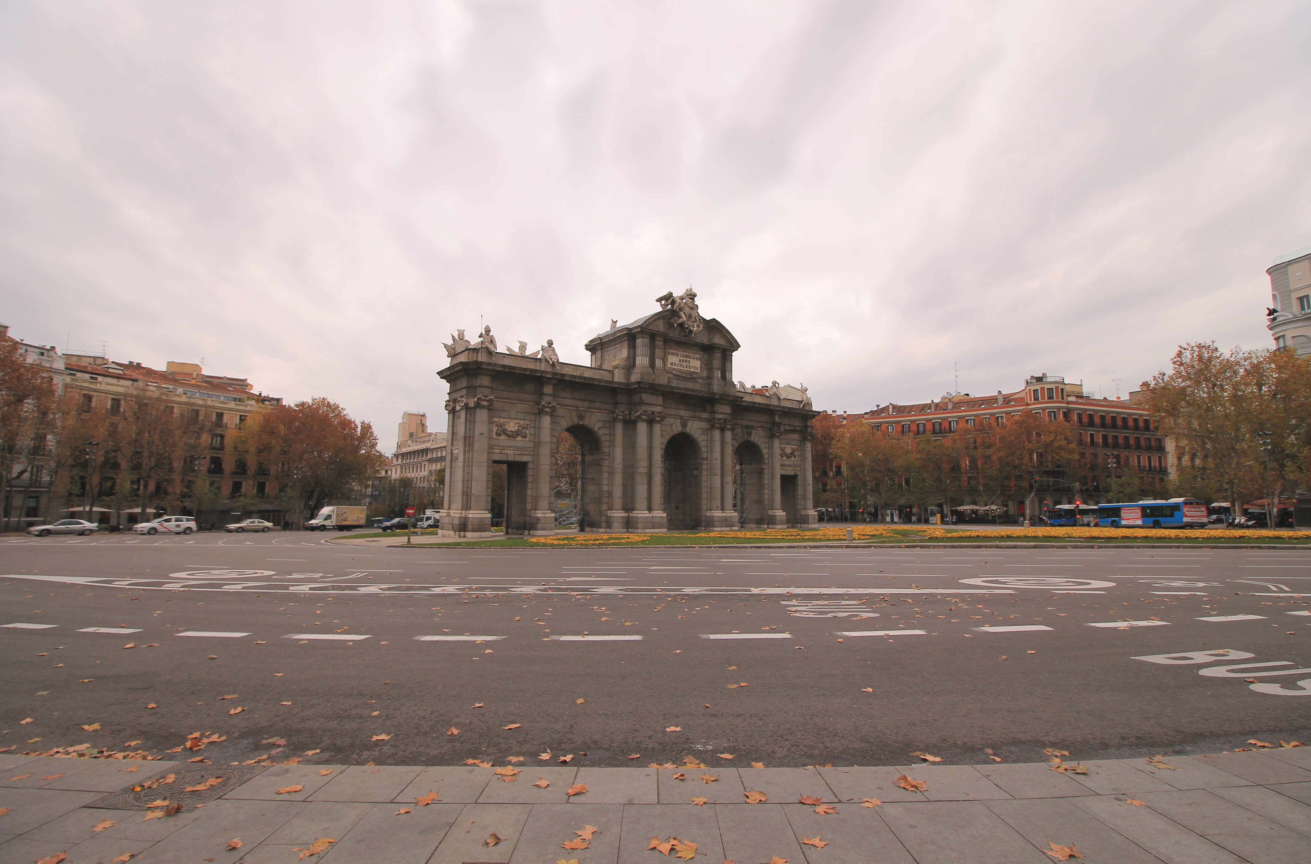 View from Plaza de la Independencia (square) in Madrid (Spain).